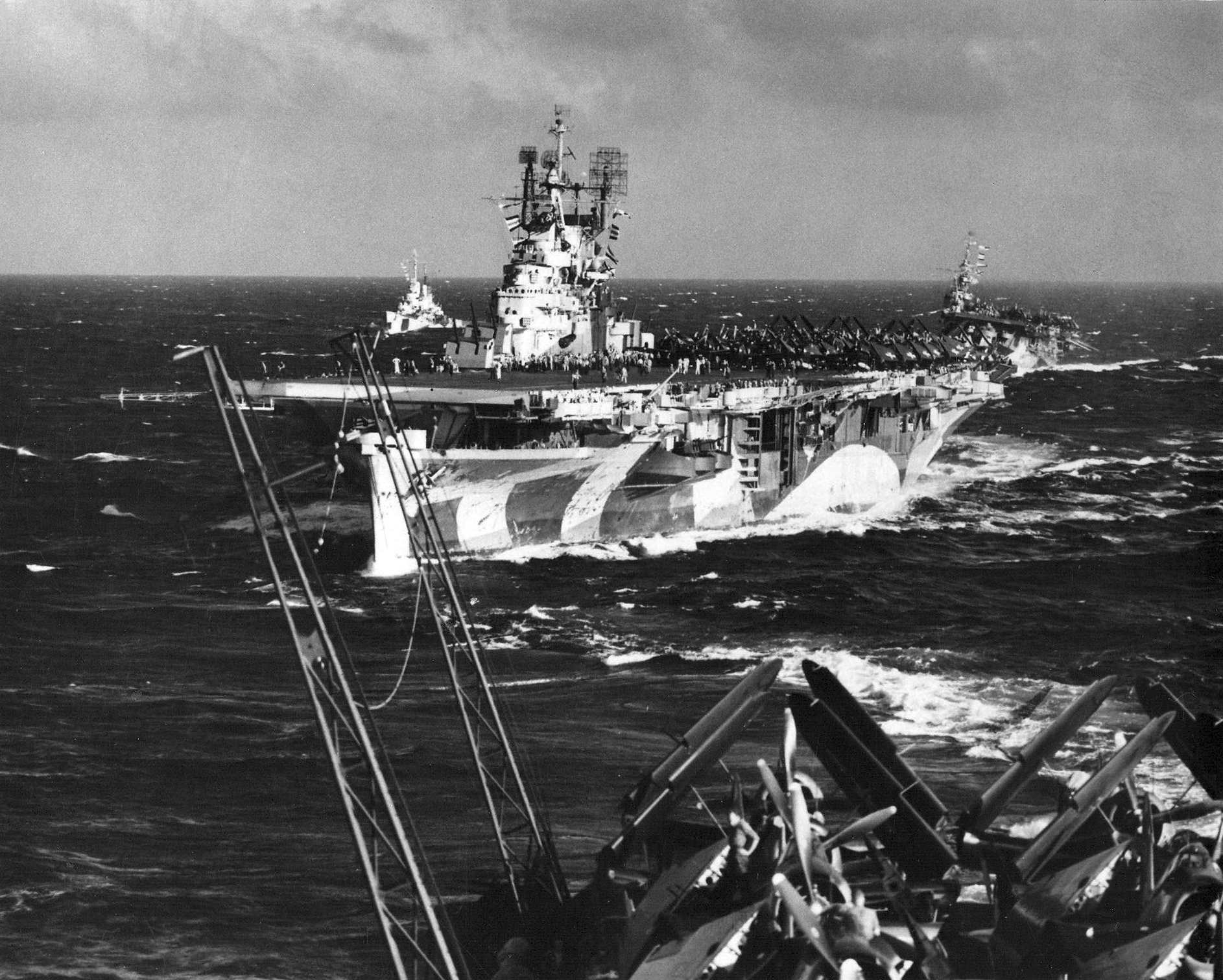 The U.S. Navy aircraft carrier USS Yorktown (CV-10) and other ships of Task Group 58.4 steaming off Kyushu on 18 March 1945. The photo was taken from USS Intrepid (CV-11), USS Independence (CVL-22) is visible aft of Yorktown. On this date 16 carriers if Task Force 58 under the command of Vice Admiral Marc A. Mitscher began launching strikes to neutralize Japanese air power prior to the Allied invasion of Okinawa on 1 April 1945. In five days of operation, U.S. naval aviators destroyed 482 enemy planes. Note the dazzle camouflage schemes, Yorktown was painted in Measure 33 Design 10A.